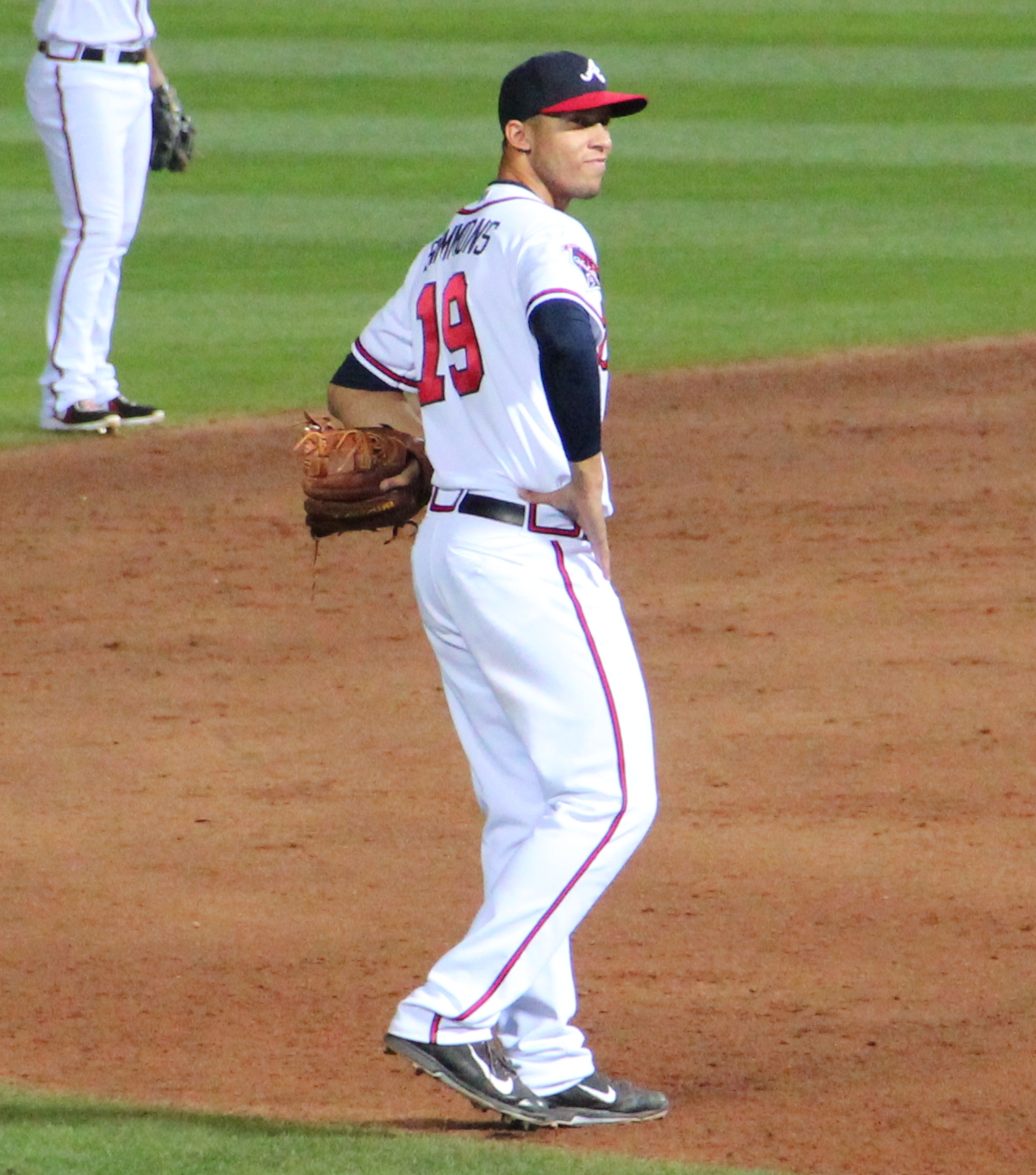 Andrelton Simmons, May 22, 2014